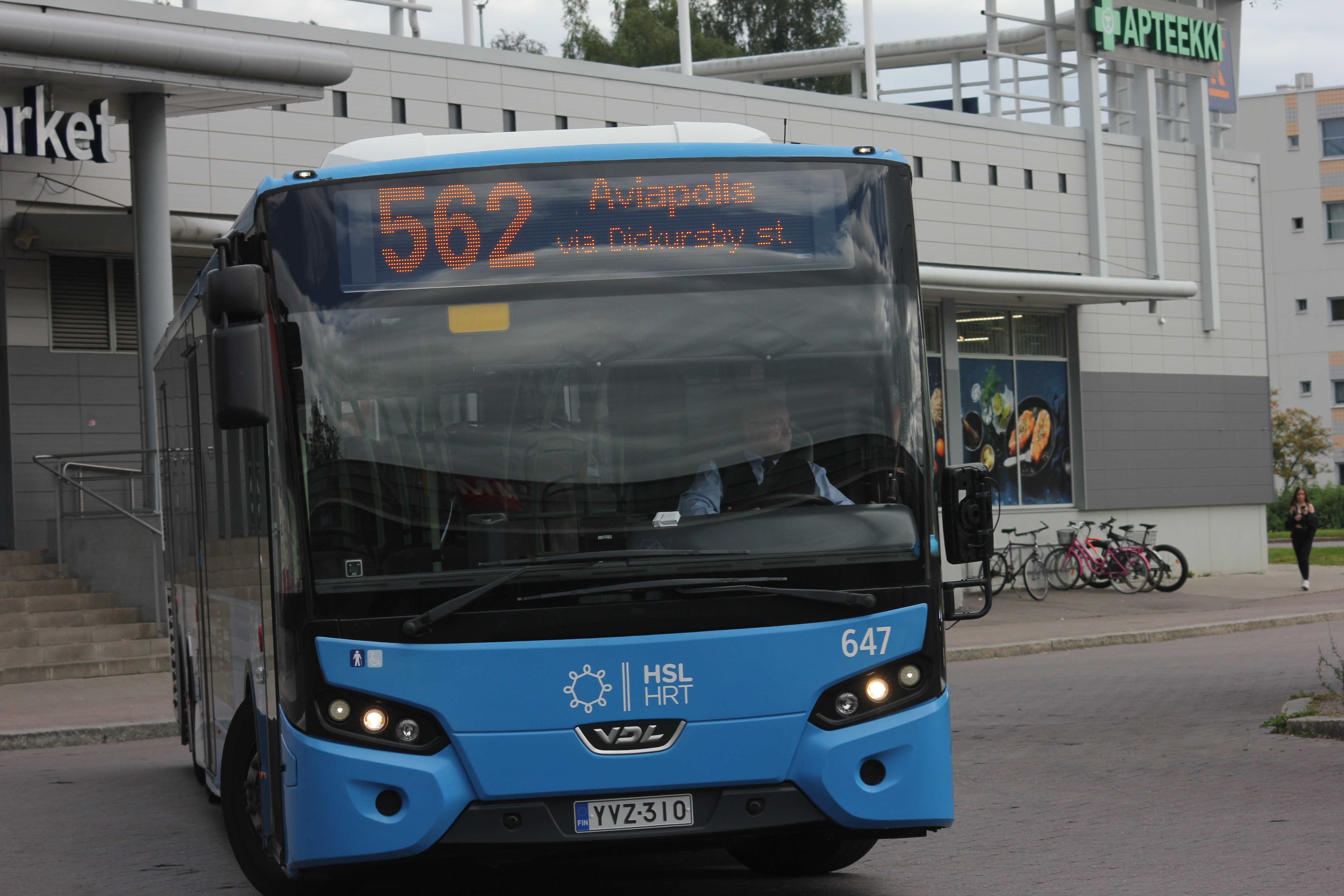 Pohjolan Liikenteen VDL Citea XLE-145 (647) linjalla 562 Mellunmäessä.